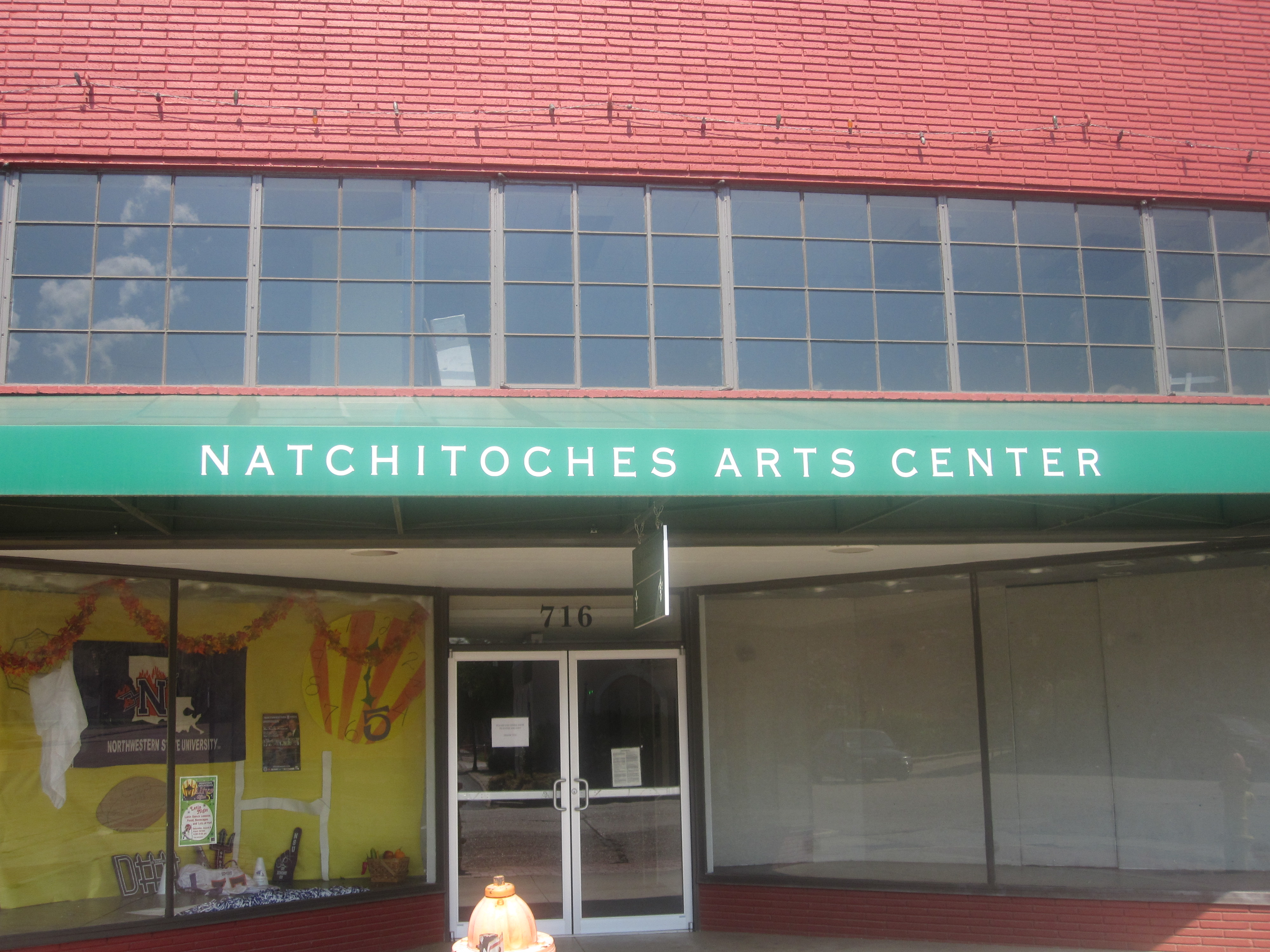 Arts Council Center — in the Natchitoches Historic District, Natchitoches, Louisiana.